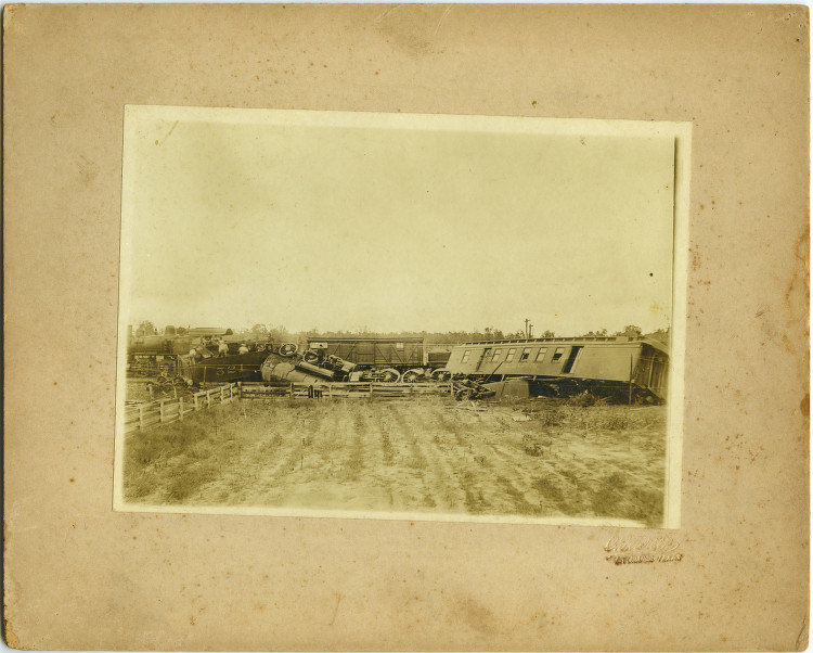 Title: [Railroad accident] Creator: Petersen, C. Date: ca. 1890s Part Of: Lawrence T. Jones III Texas photography collection Physical Description: 1 photographic print; 12.5 x 18 cm. on 20 x 25 cm. mount Form/Genre: Photographs; Photographic prints File: ag2008_0005_4_1_7_22_crash_opt.jpg Rights: Please cite DeGolyer Library, Southern Methodist University when using this file. A high-resolution version of this file may be obtained for a fee. For details see the web page. For other information, . For more information, View the Lawrence T. Jones III Texas Photographs at